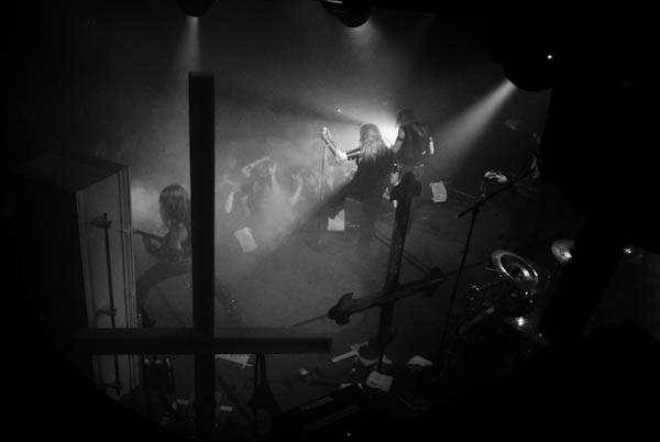 Gorgoroth, live at Hole In The Sky - Bergen Metal Fest